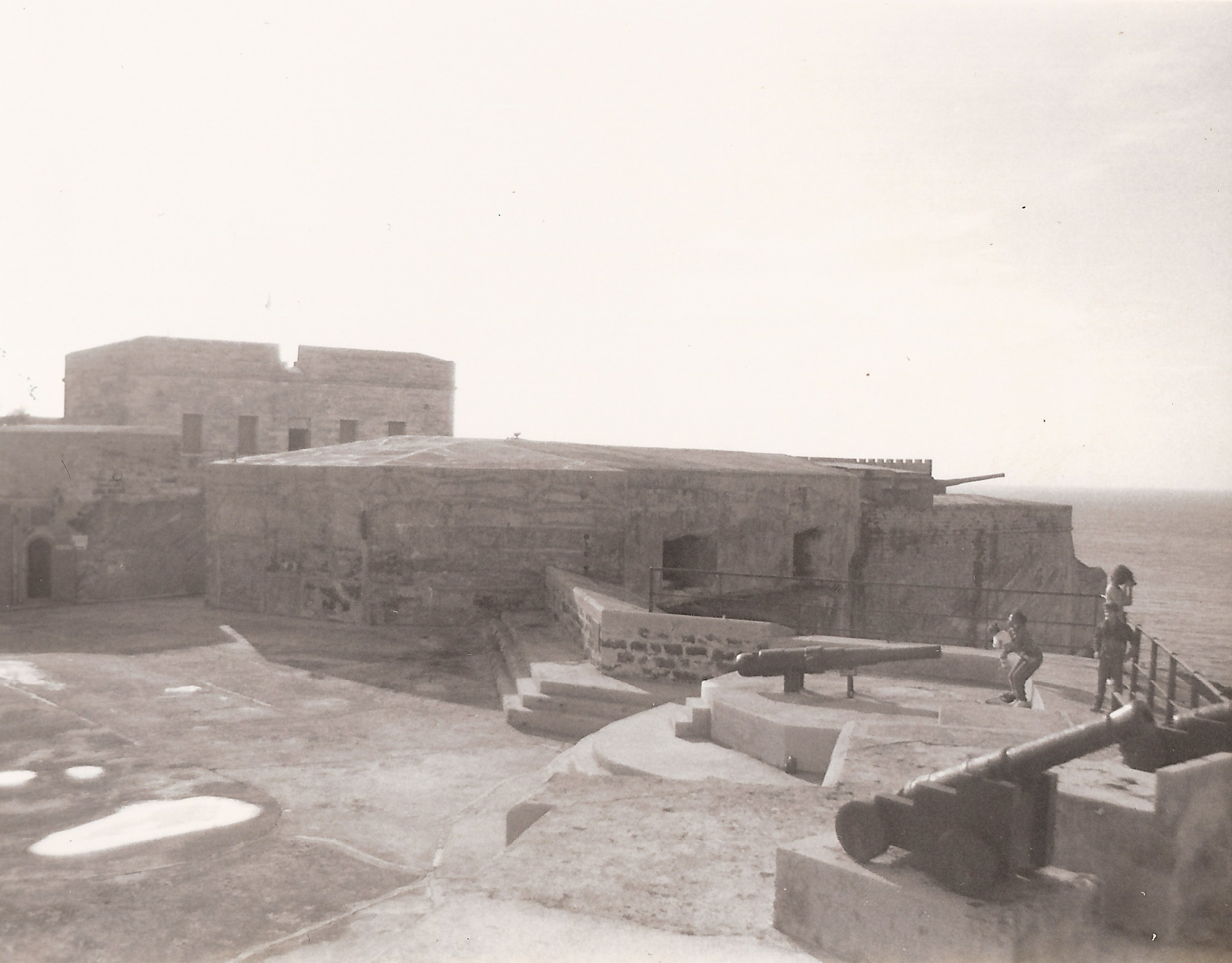 An exterior view of Fort St. Catherine's, St. George's Island, Bermuda. The barrel of a BL 6 inch Mk VII naval gun is visible at the rear.